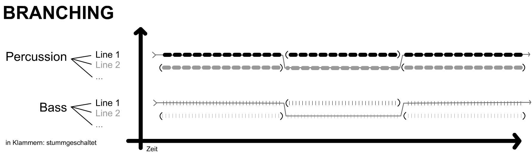 Branching